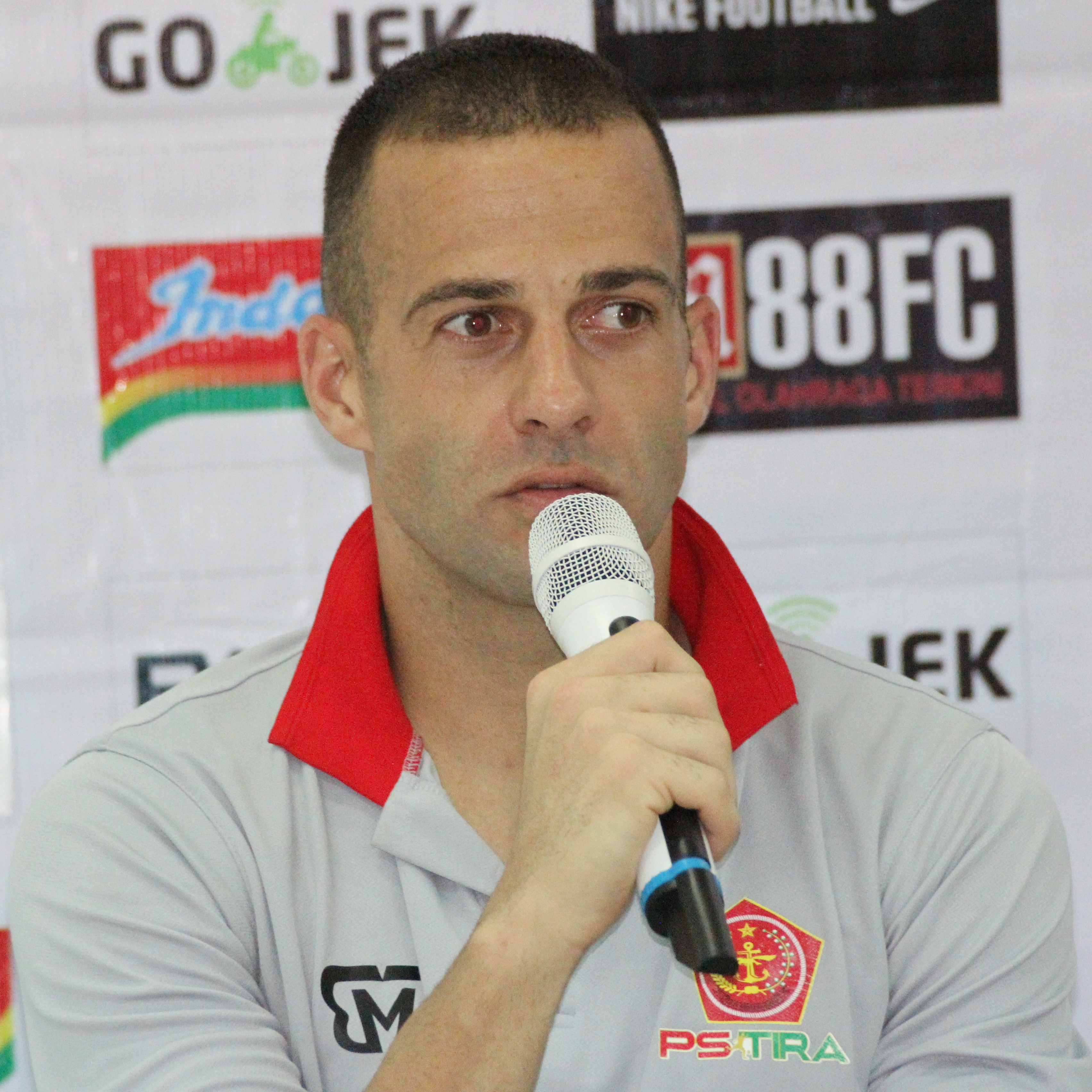 2017 Liga 1 Indonesia Top Scorer, Aleksandar Rakic (PS Tira)